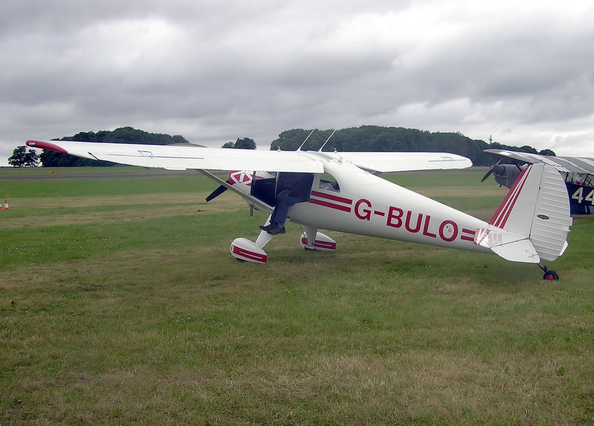 Luscombe Silvaire 8f (UK registration G-BULO, date of build 1946) at Kemble Airfield, Gloucestershire, England. Photographed by Adrian Pingstone in July 2005 at a PFA Rally and released to the public domain.